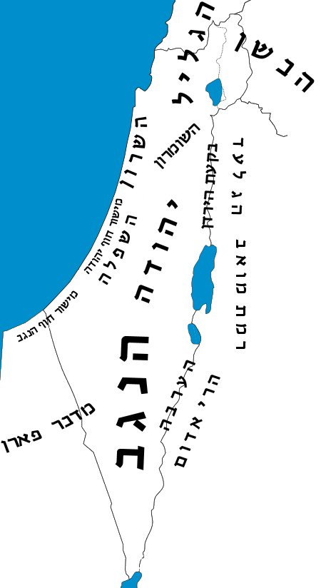 אזורים בארץ ישראל Holy Land regions -- Galilee, Bashan, plain of Sharon, Judea, Negev, Gilead, Moab, Edom, Paran, etc.